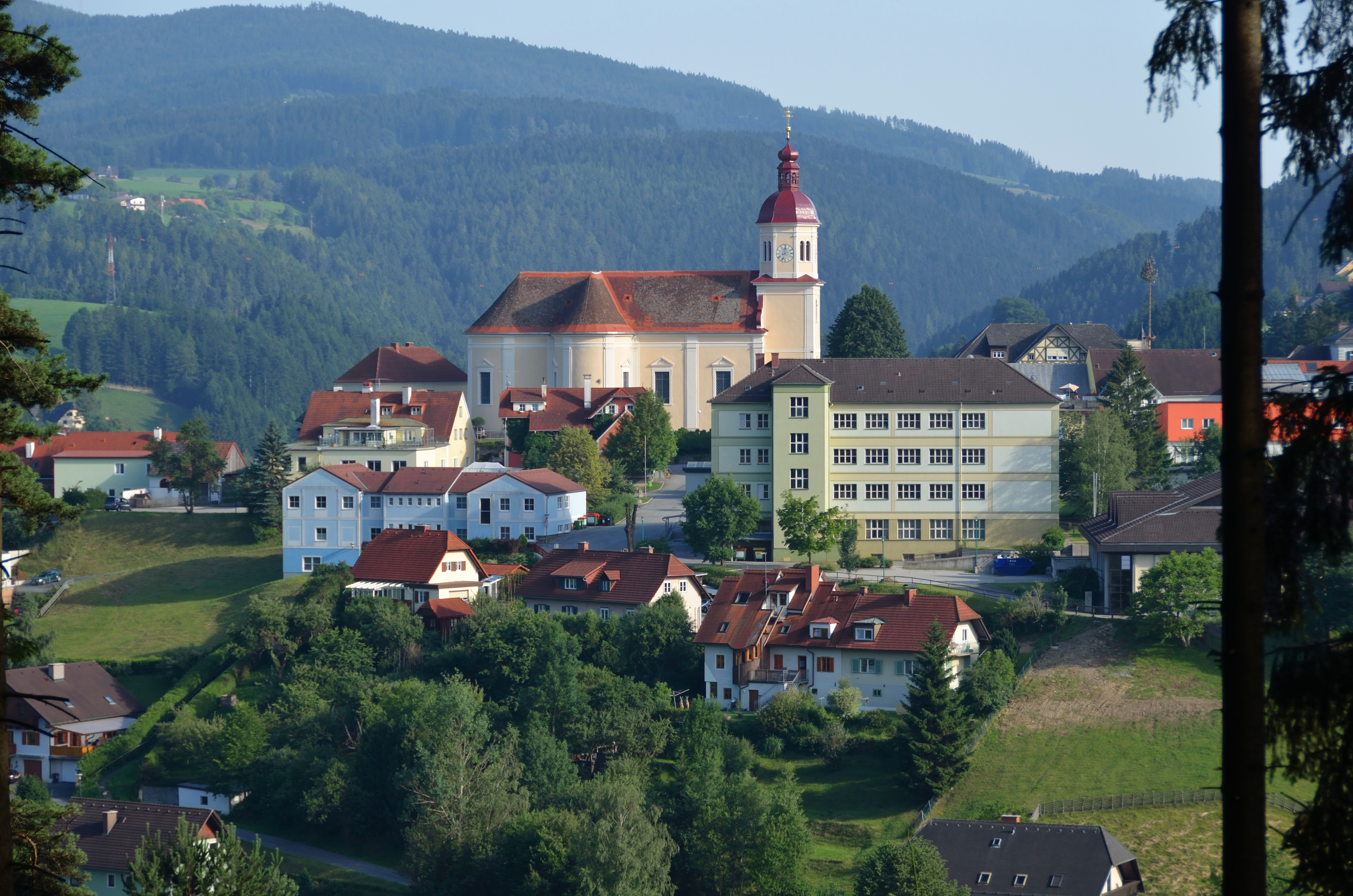 View of Birkfeld, Styria, with the parish church hll. Petrus and Paulus, as seen from the gallow.